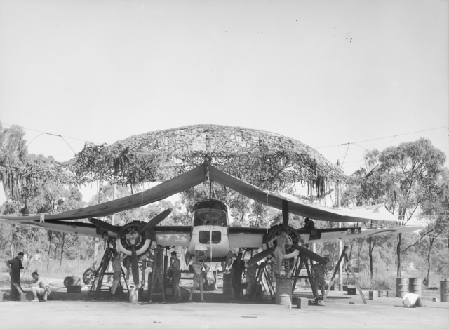 AWM Caption: Townsville, Qld. Servicing party working on a DAP Beaufort bomber aircraft of No. 7 Squadron RAAF, probably at Reid River or Macrossan airfield, in a camouflaged dispersal bay supported by underwing trestles. The aircraft's nose armament consists of two flex-mounted .303 machine guns and a chin turret mounted .303.